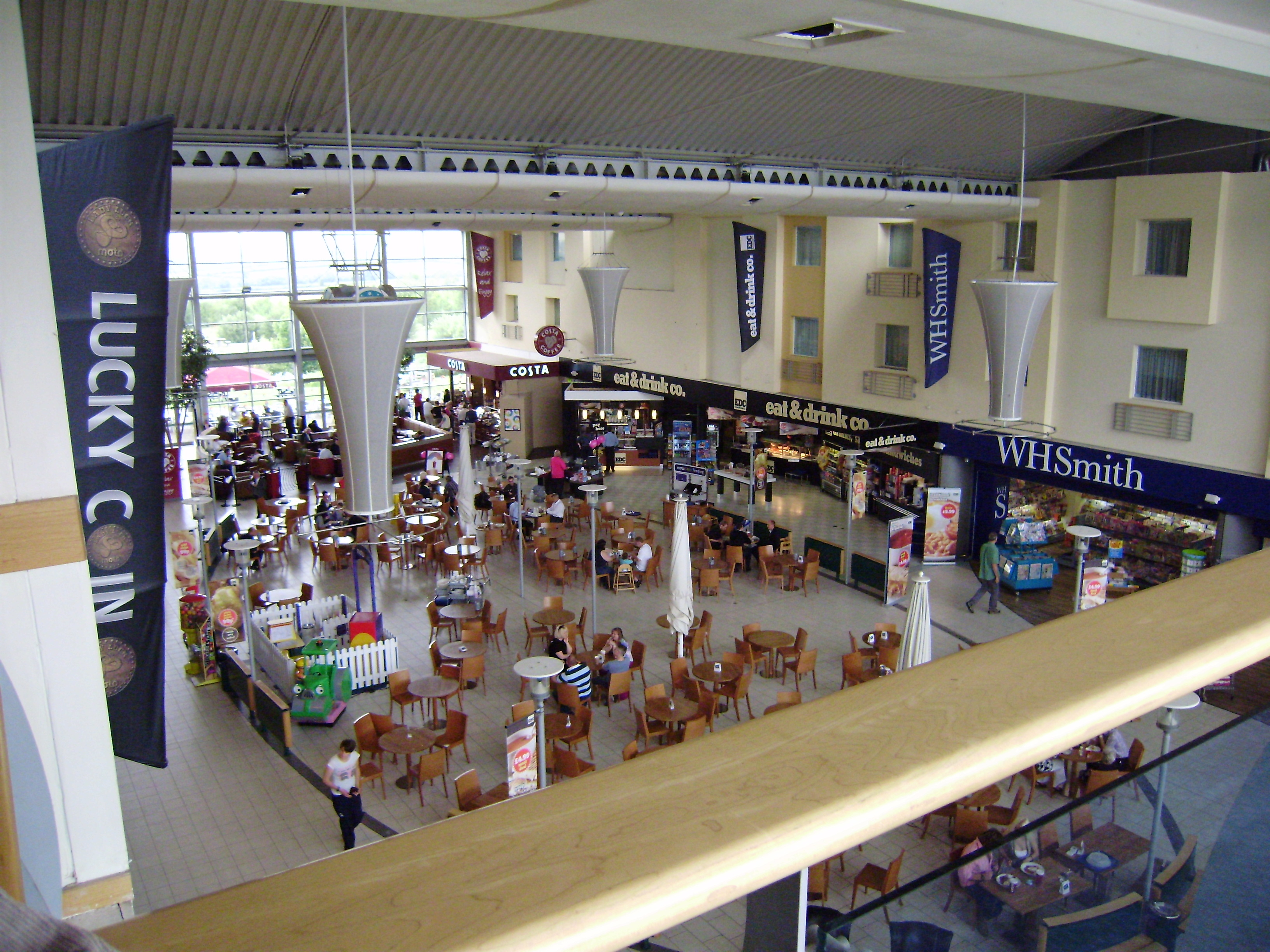 Donington Park Services - view over atrium from second floor